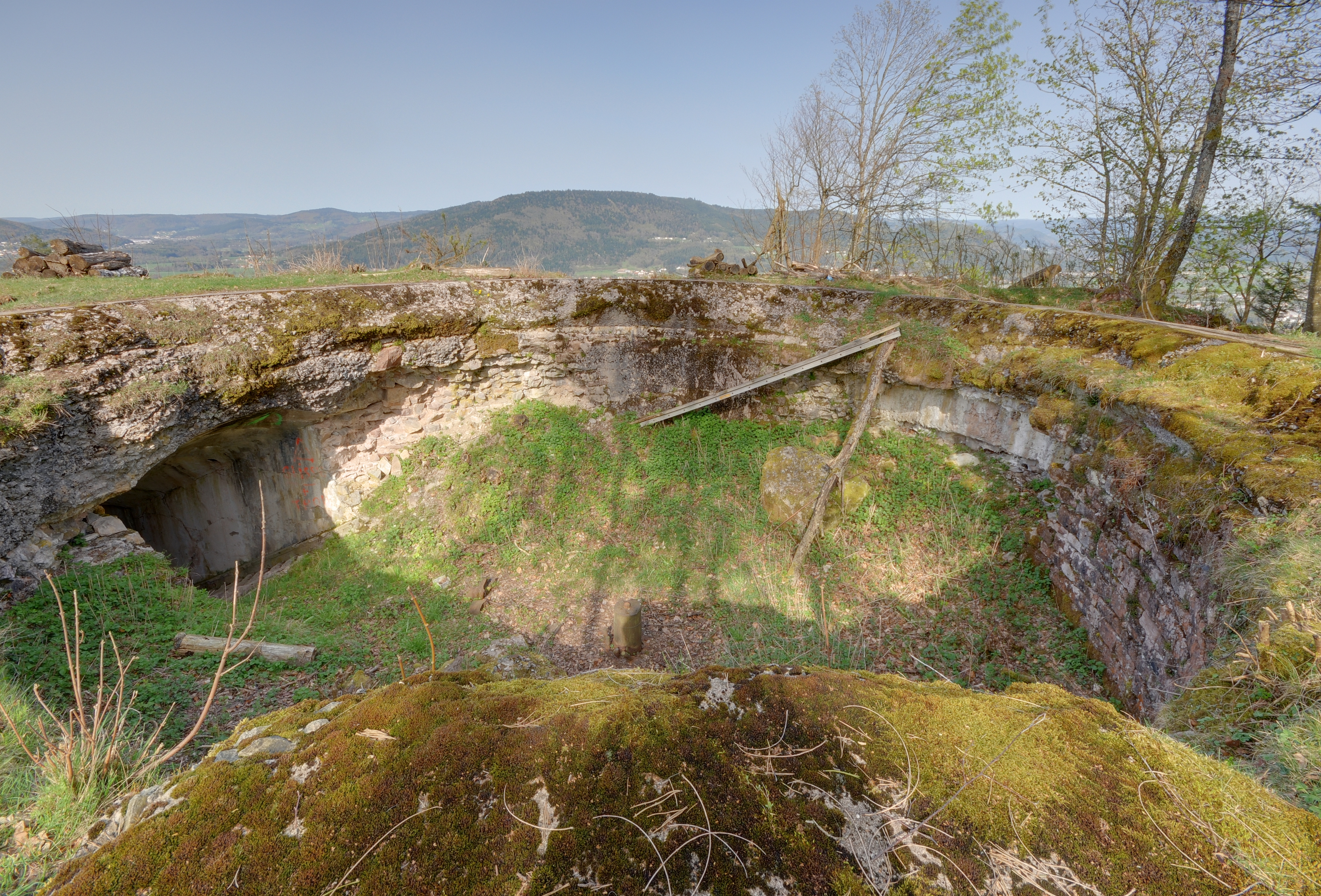 This photograph was taken with a Nikon D300 Le puits de la tourelle Mougin. Parmont hill fortifications (HDR).